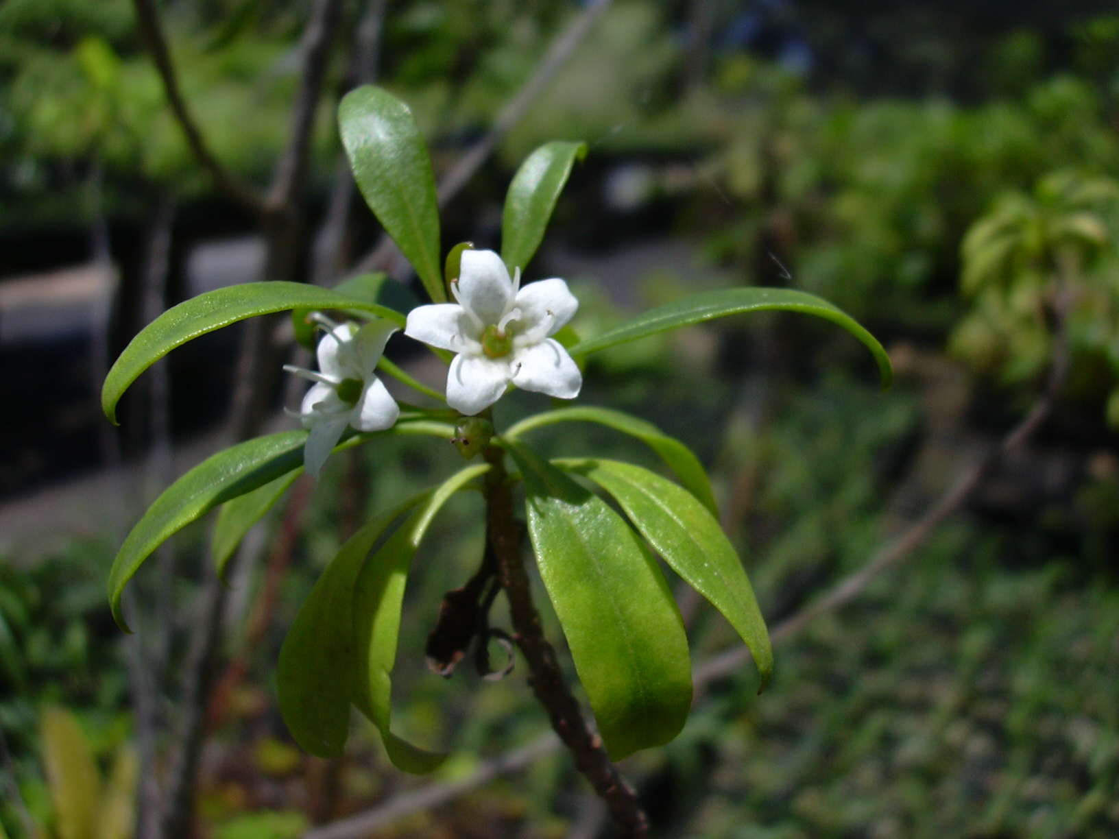 Myoporum sandwicense (flower). Location: Maui, Hoolawa Farms